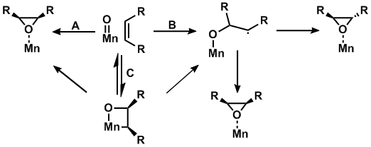 Magnesium Oxo Reactivity through different spin states leads to a multitude of products.